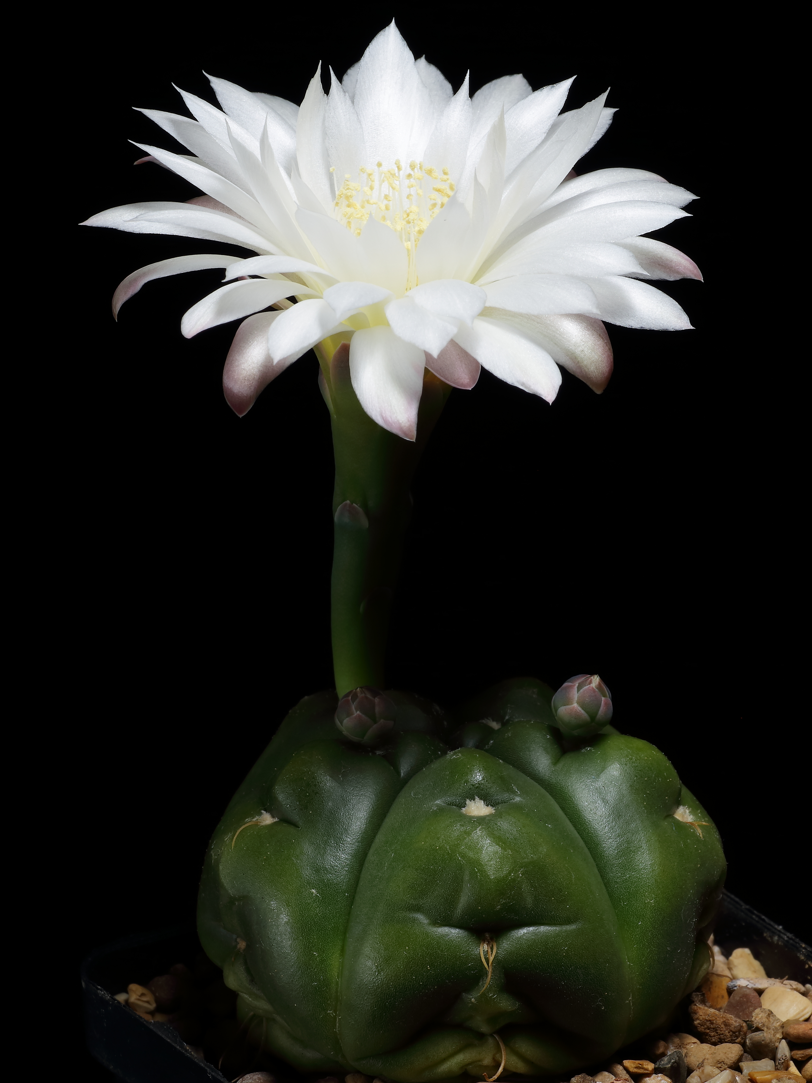 Gymnocalycium denudatum AH 368, from seed sown in January 2009. The seeds was collected by Andreas Hofacker near Torrinhas, in the Brazilian state Rio Grande do Sul, 1992.